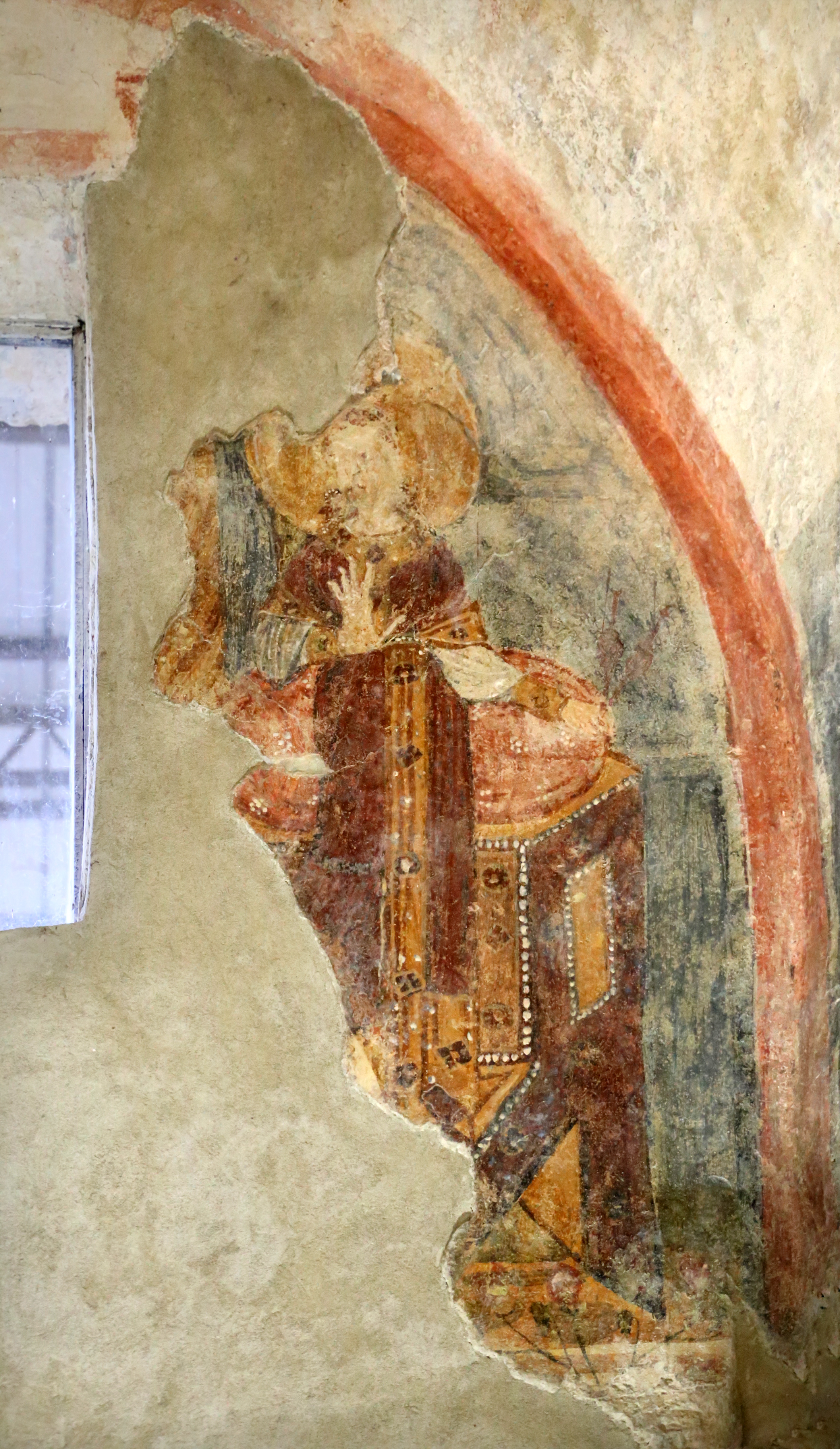 Epifanio Crypt